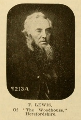 Thomas Lewis, founder of the Haven Herd of Hereford cattle, originally based at The Woodhouse, Shobdun, Herefordshire, UK